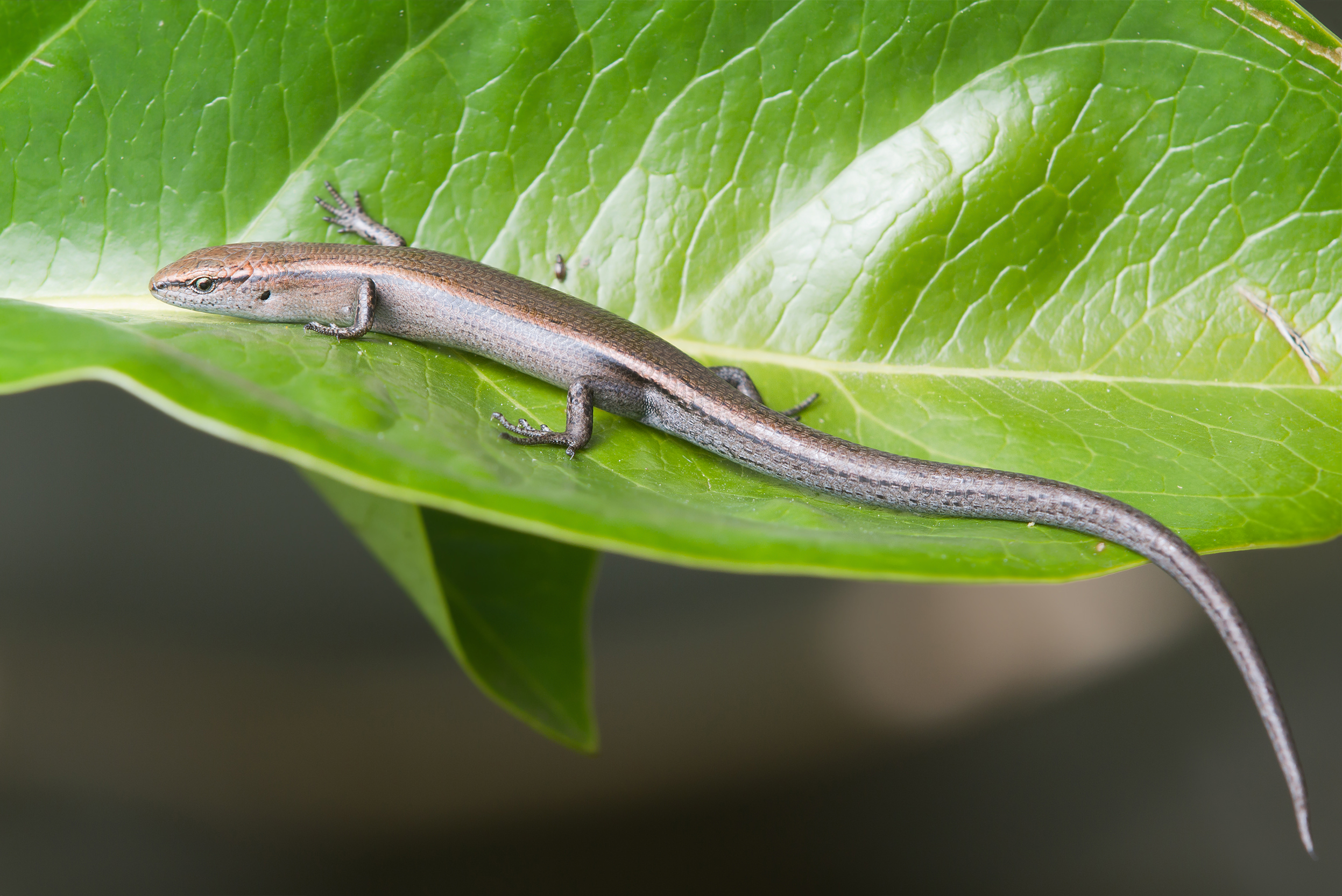 Metallic Skink (Niveoscincus metallicus), Austin's Ferry, Tasmania, Australia.